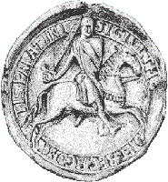 Theobald IV of Champagne